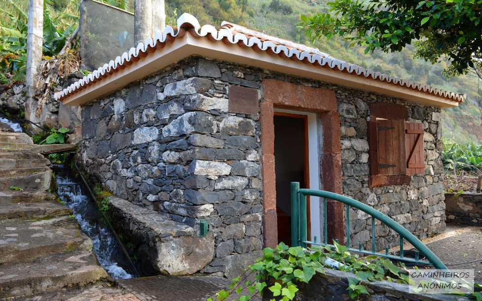 Imagem referente ao Moinho das Roseiras